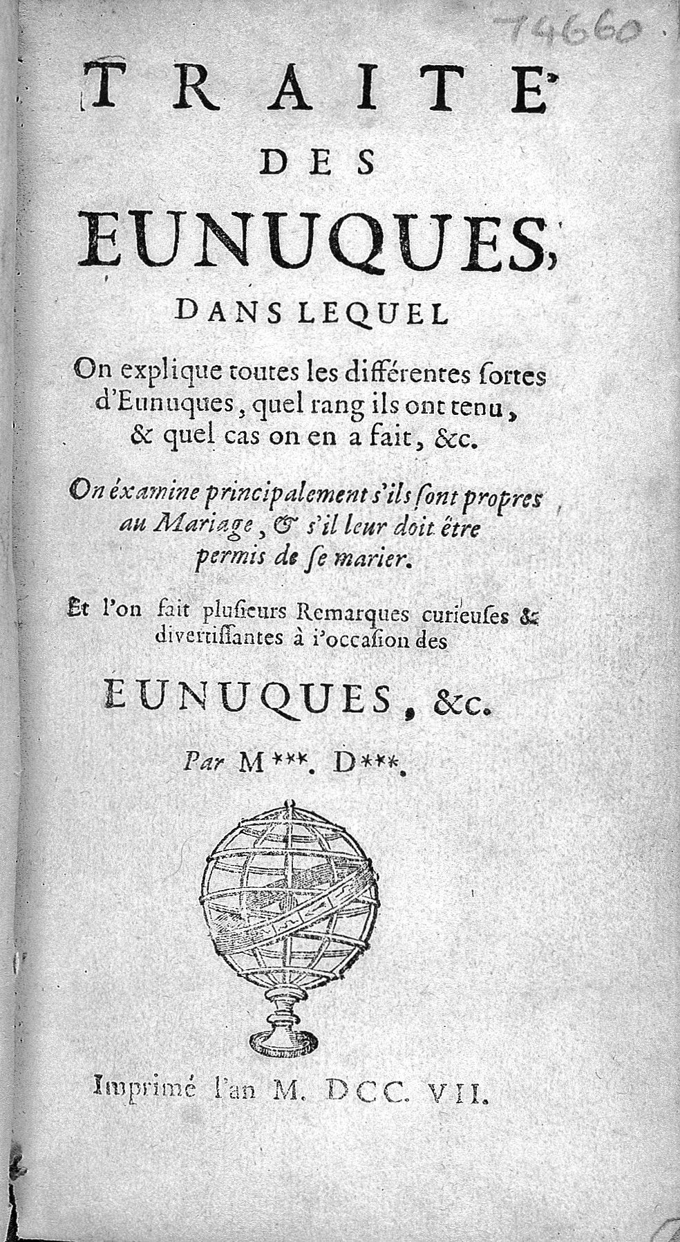 Title page Rare Books Keywords: eunuchs